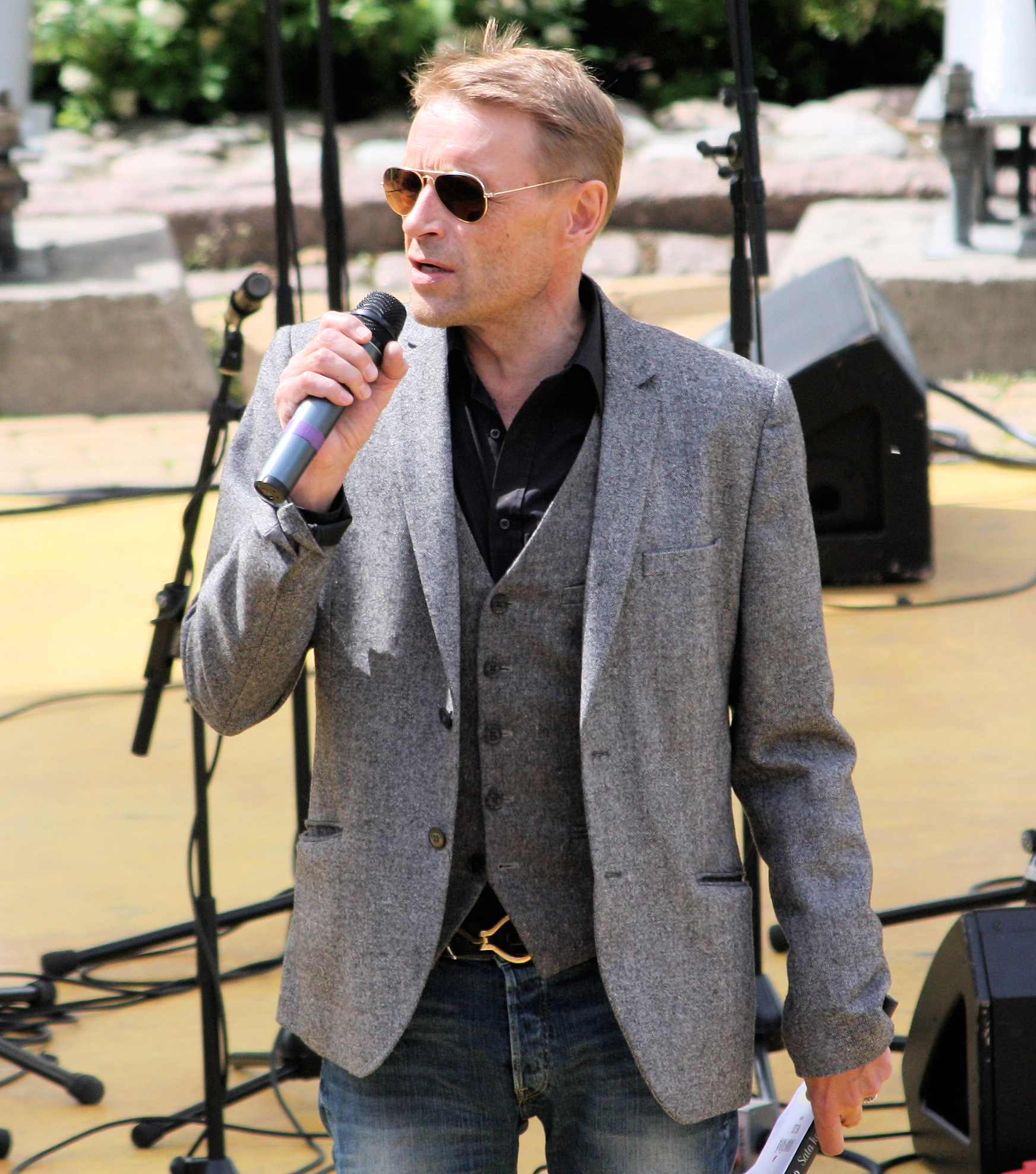 Finnish actor Ilkka Heiskanen on Aurinkomäki stage - Kerava Day 2013